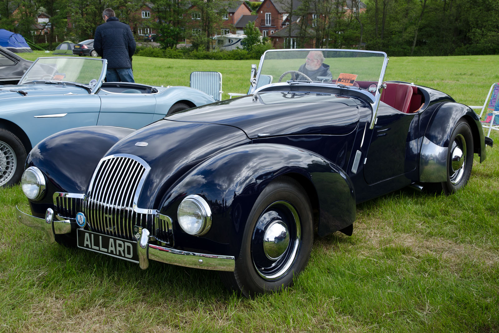 1948 Allard K1 Roadster Heskin Hall Steam Fair 31/05/2014